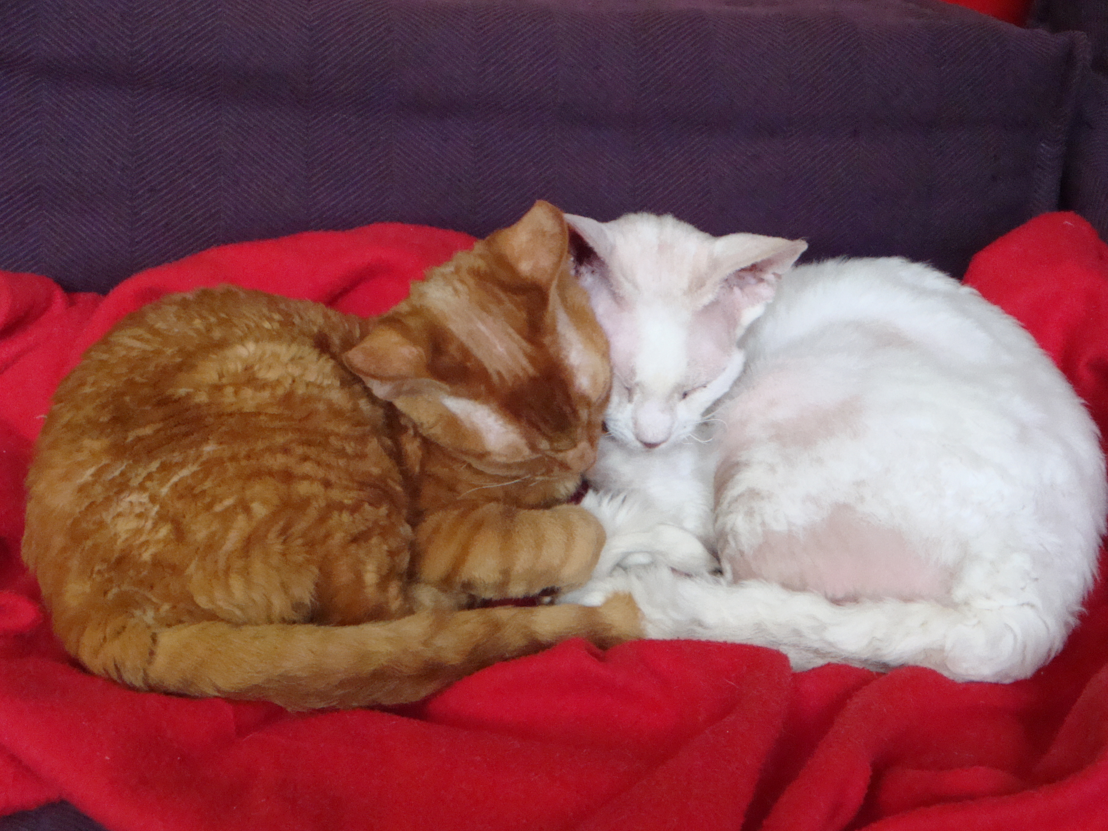 Devon Rex, male, female, cats, white, red, Vogel&Pipi